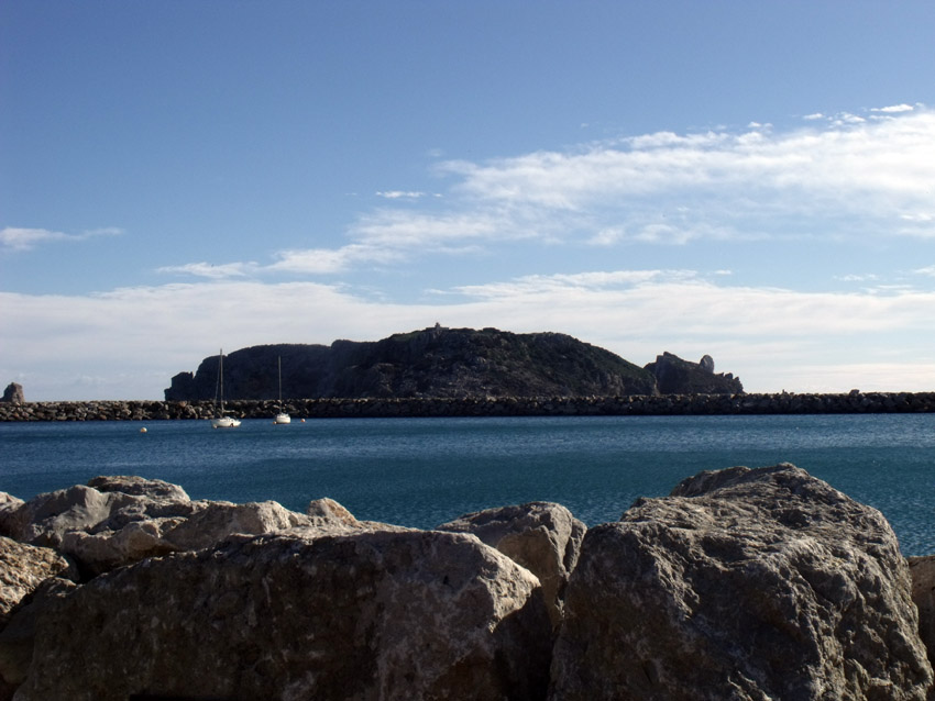 Estartit (province of Girona). View from the seaport